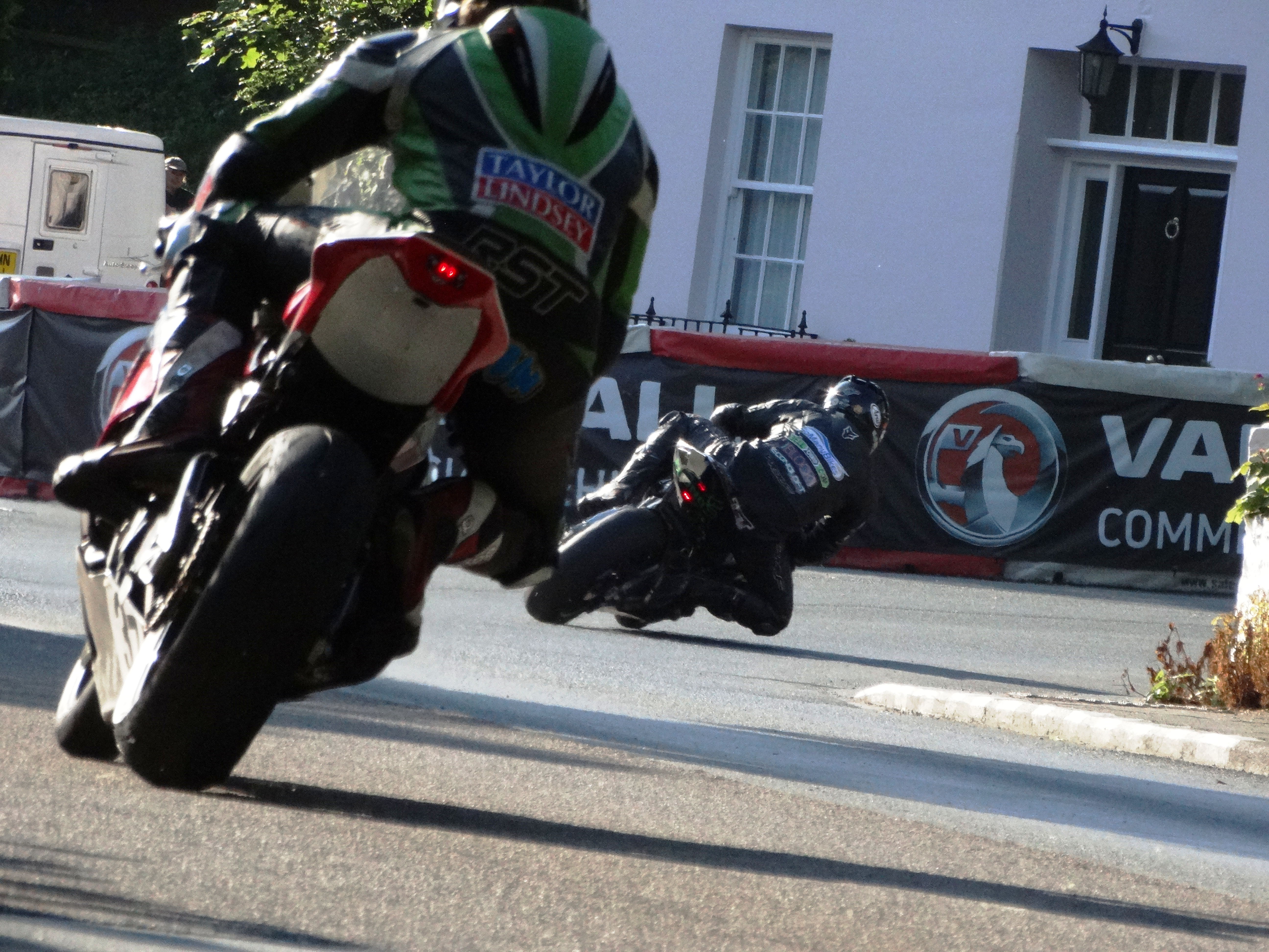 Neat cornering at Ballacraine